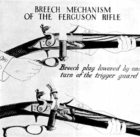 National Park Service, "The American Rifle At the Battle of Kings Mountain"